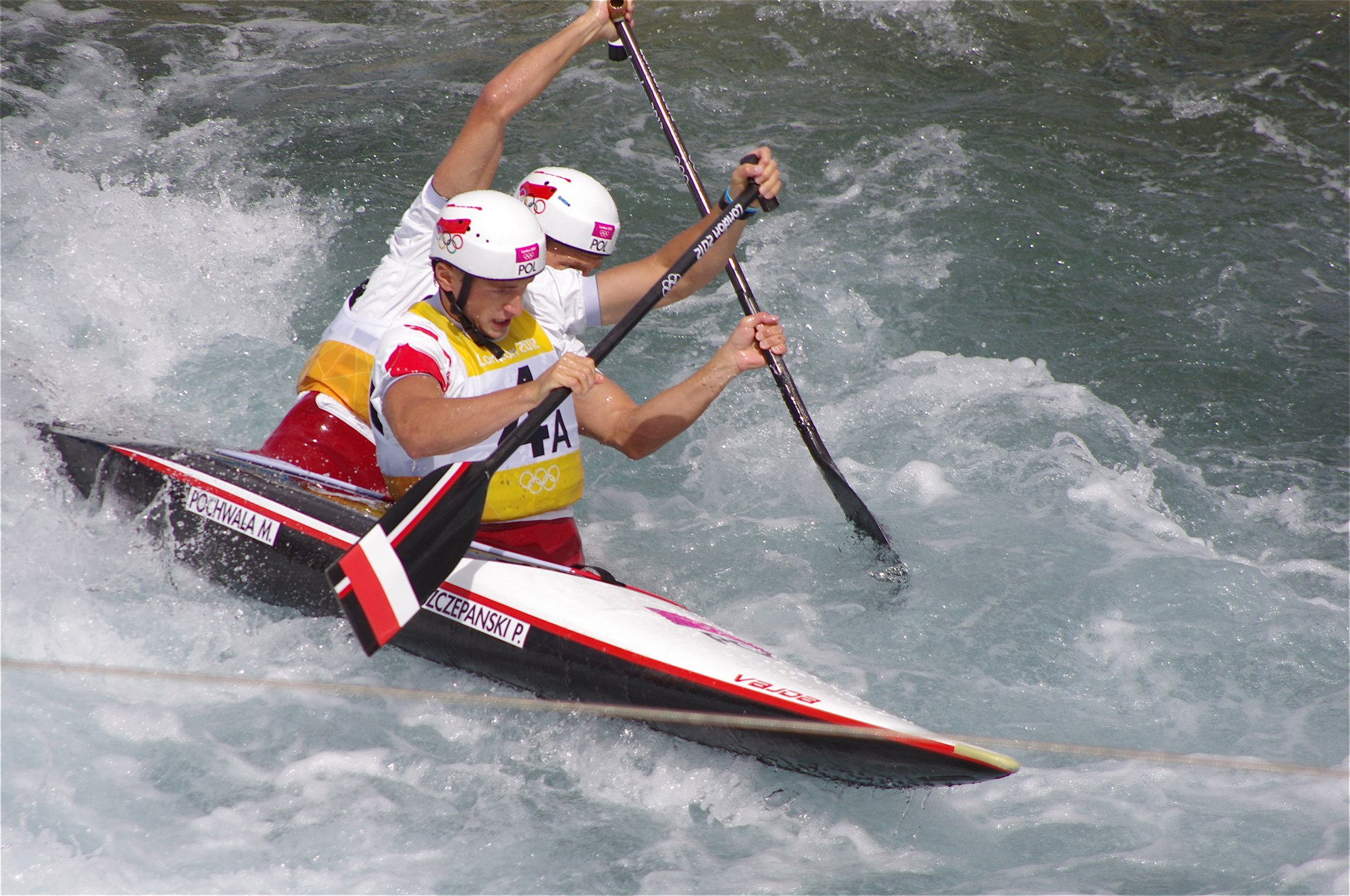 Canoeing at the 2012 Summer Olympics – Men's slalom C-2 Piotr_Szczepański and Marcin_Pochwała (POL)